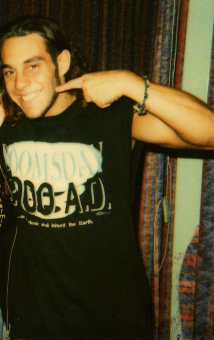 GWF Battle of the Champions - July 6th 2002 - Preston Guild Hall, Preston